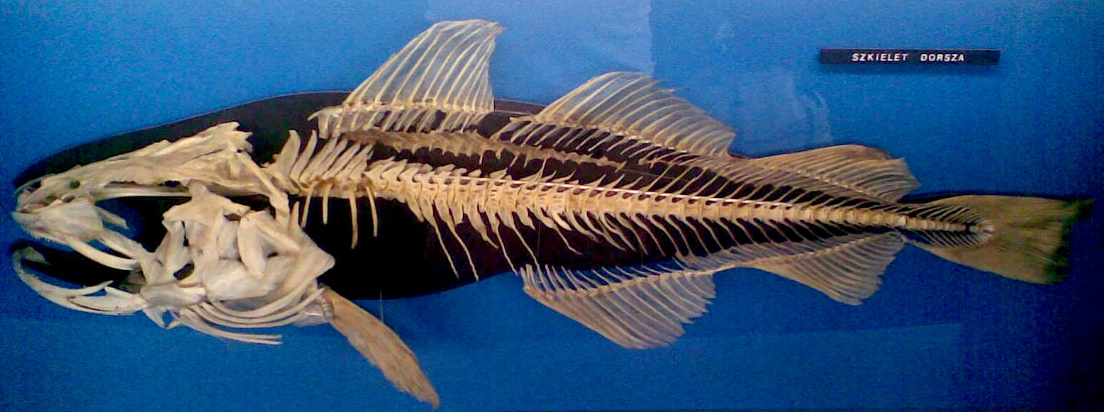 Skeleton of a cod (Gadus morhua). Image taken in the Akwarium Gdyńskie, Gdynia, Poland.